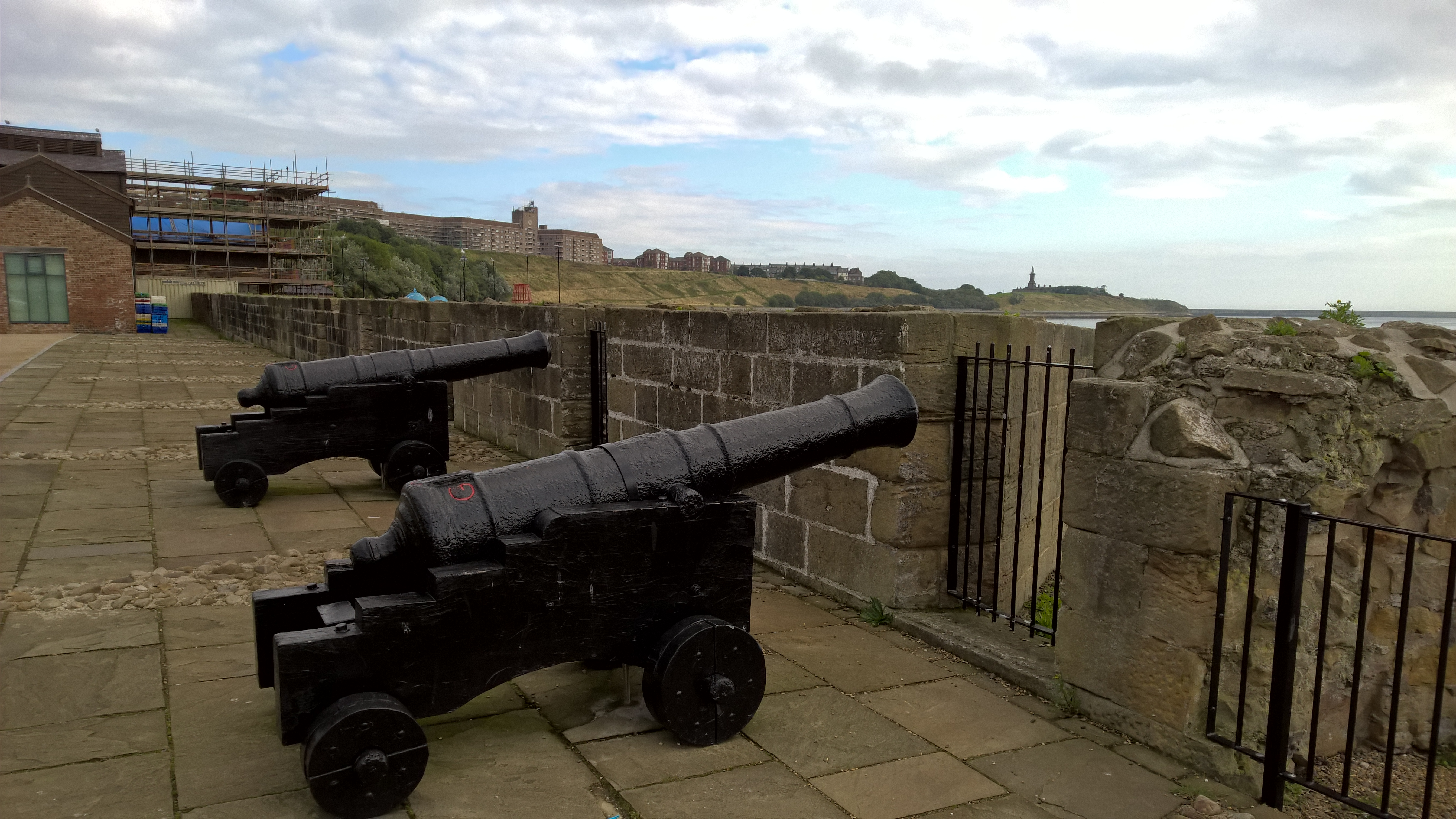 Clifford's Fort was built in 1672 to defend the River Tyne during the Dutch Wars